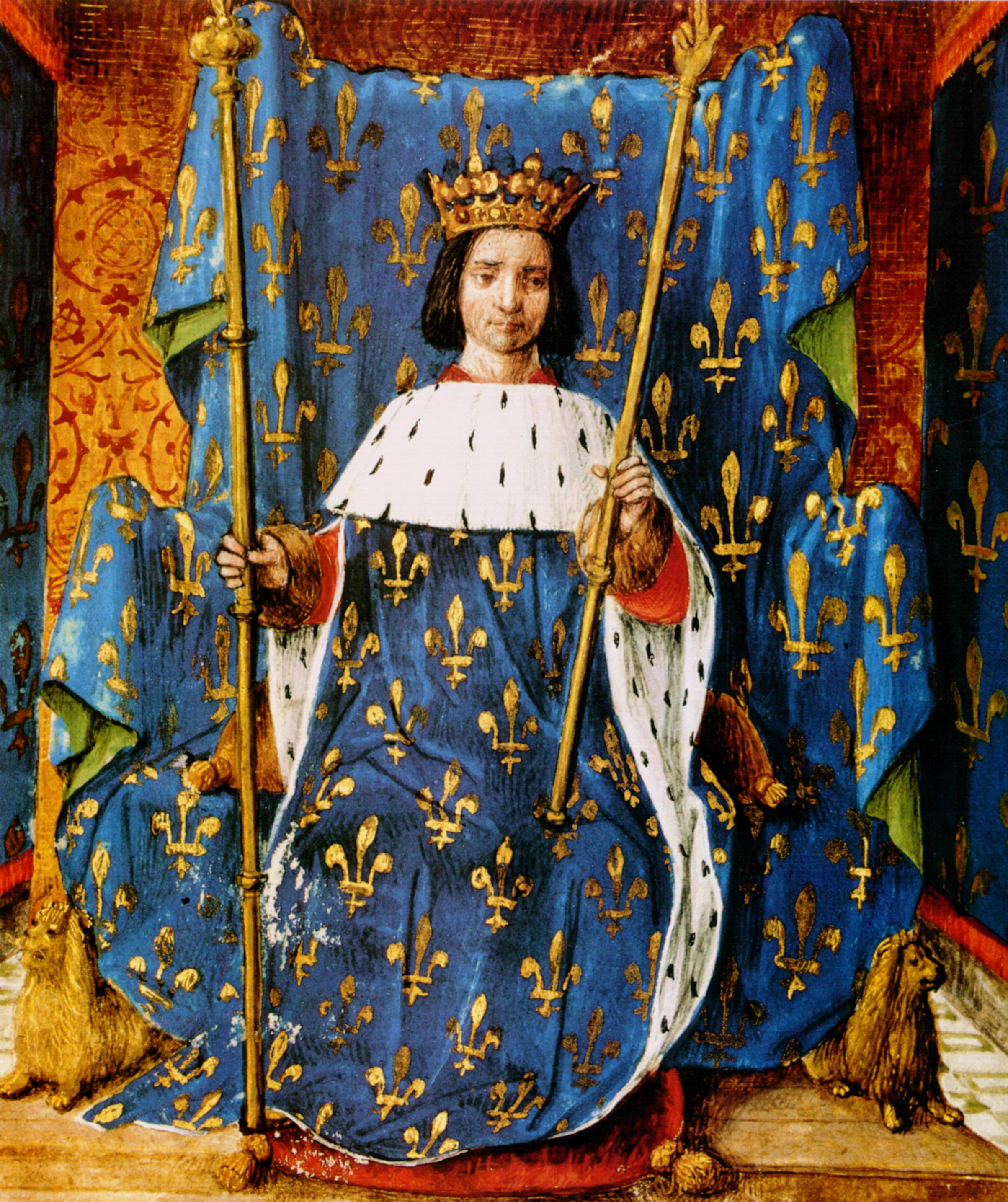 Young Charles VI of France (1368–1422)